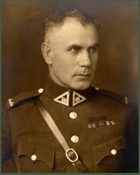 Vincas Vitkauskas (October 4 1890 - March 3 1965) - Lithuania and the Soviet state and military figure, Division of General.